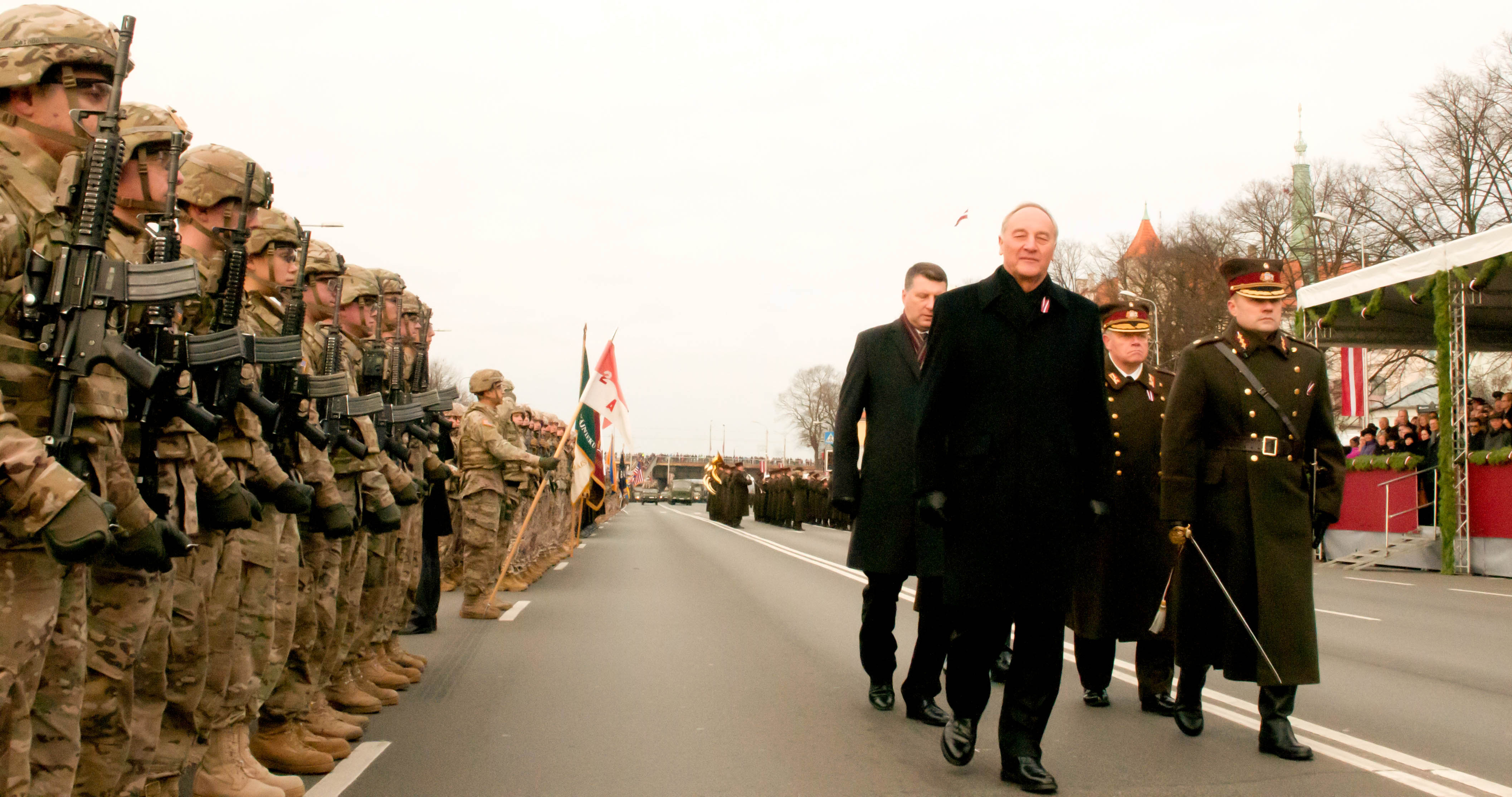 Andris Bērziņš, the president of Latvia, steps away from his review of U.S. troops from Company A, 2nd Battalion, 8th Calvary Regiment, 1st Brigade Combat Team, 1st Calvary Division, before the Latvia Day Parade on November 18, 2014 in Riga, Latvia. U.S. forces, as well as Norwegian troops, marched in the parade as a show of solidarity for their Latvian brothers-in-arms. These activities are part of the U.S. Army Europe-led Operation Atlantic Resolve land force assurance training exercise taking place across Estonia, Latvia, Lithuania and Poland to enhance multinational interoperability, strengthen relationships among allied militaries, contribute to regional stability and demonstrate U.S. commitment to NATO. (U.S. Army photo by Staff Sgt. Kenneth C. Upsall)